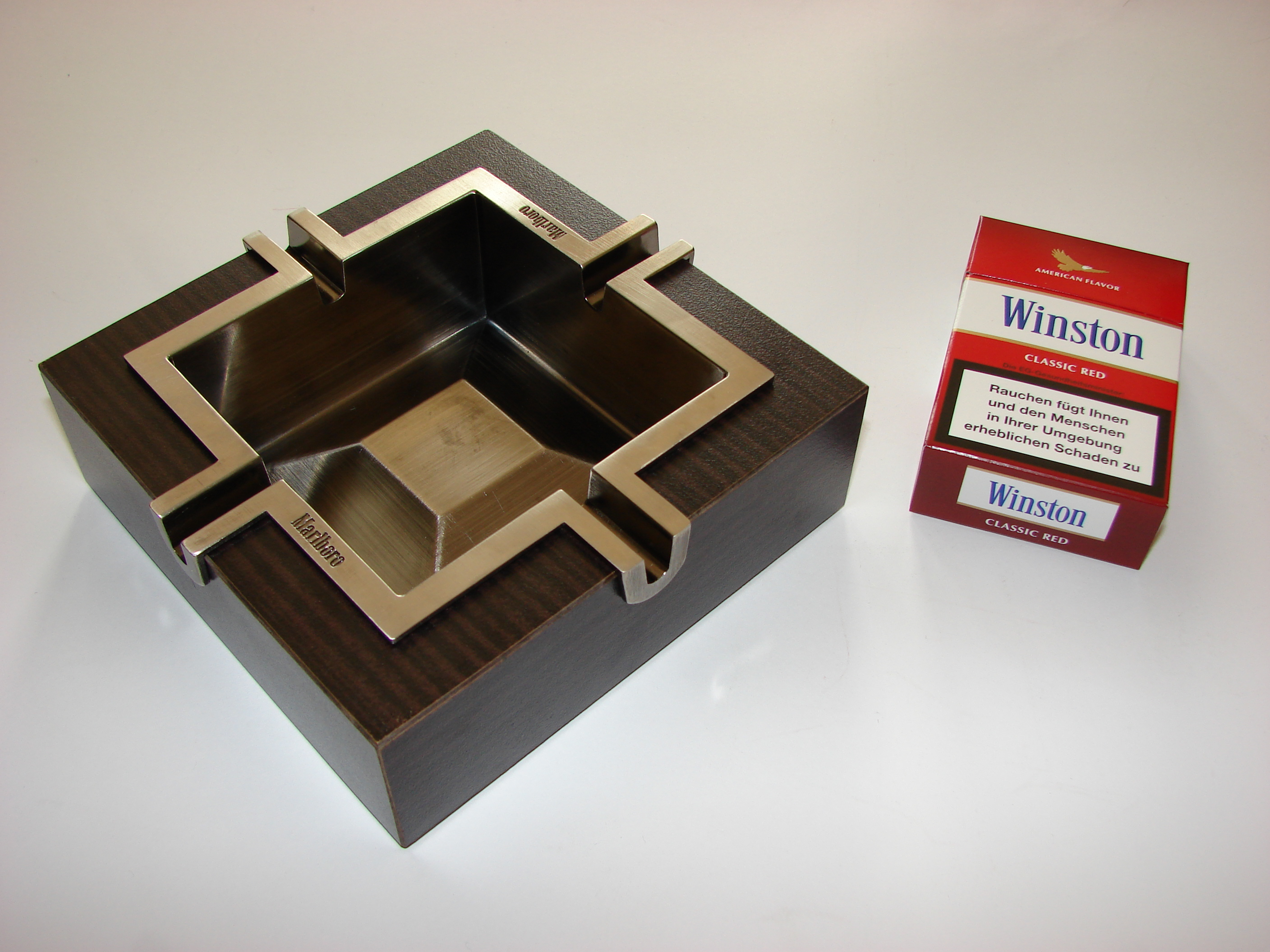 Marlboro ashtray and a package of Winston cigarettes.